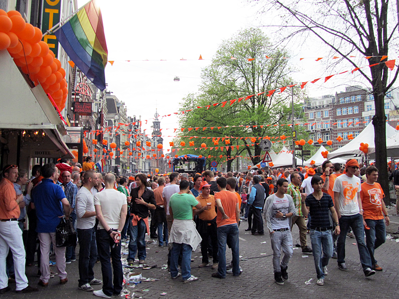 Street party near the gay bars alongside Amstel river in Amsterdam, celebrating the annual Queen's Day on April 30.